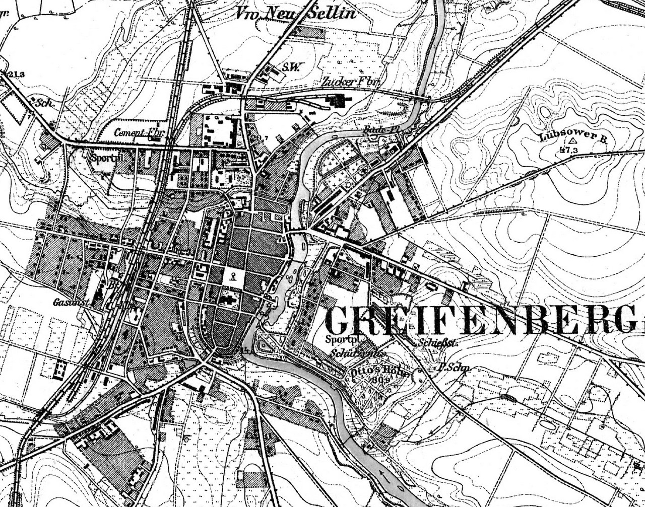 Map of town Gryfice (then Greifenberg) from 1929